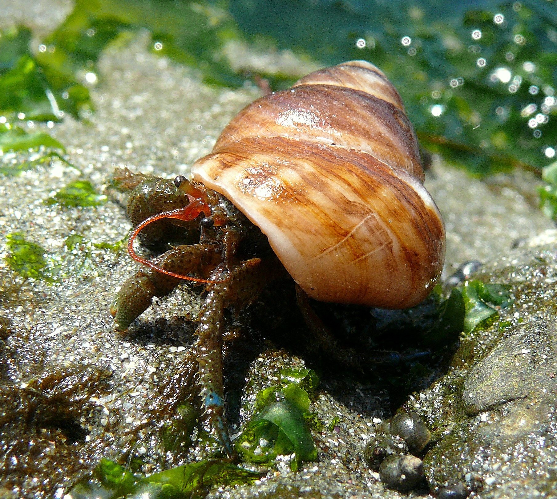 Blue-Banded Hermit Crab (Pagurus samuelis) sporting an upgraded home he found lying around in the tide pools (a brown turban shell).